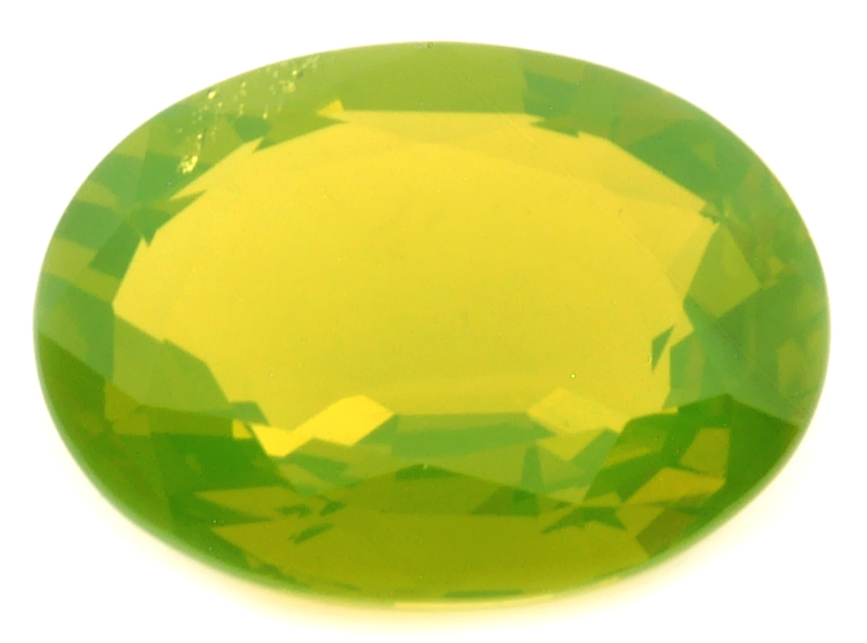 Yellow chrysoberyl Contents 1 Source 2 Labels 3 Licensing 4 Original upload log Source Photographed by David Weinberg for and released to the public domain. contributors. Yellow Chrysoberyl Oval, 2.47 cts. In , Tsarstone collectors guide. December 07, 2006, 16:42 UTC. Available at: Accessed February 27, 2007. Chrysoberyll Chrysoberyl Chrysoberyl Krysoberylli Хризоберил Labels First row: Alexandrite, Chrysoberyl